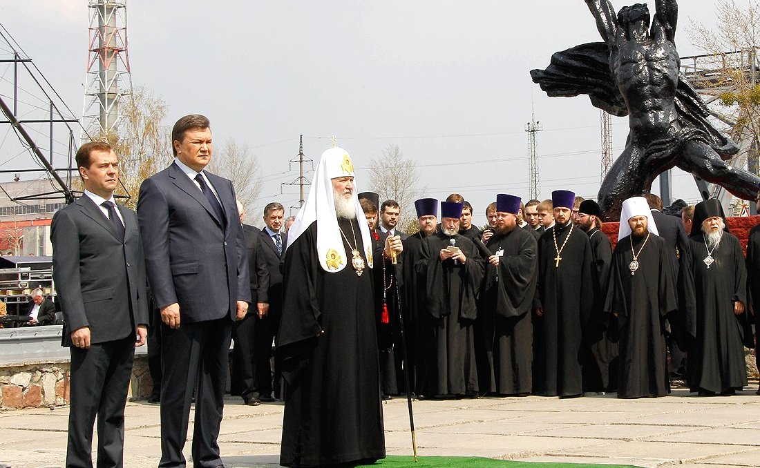 At the memorial to the first victims of the Chernobyl disaster. With President of Ukraine Viktor Yanukovych and Patriarch Kirill of Moscow and All Russia.